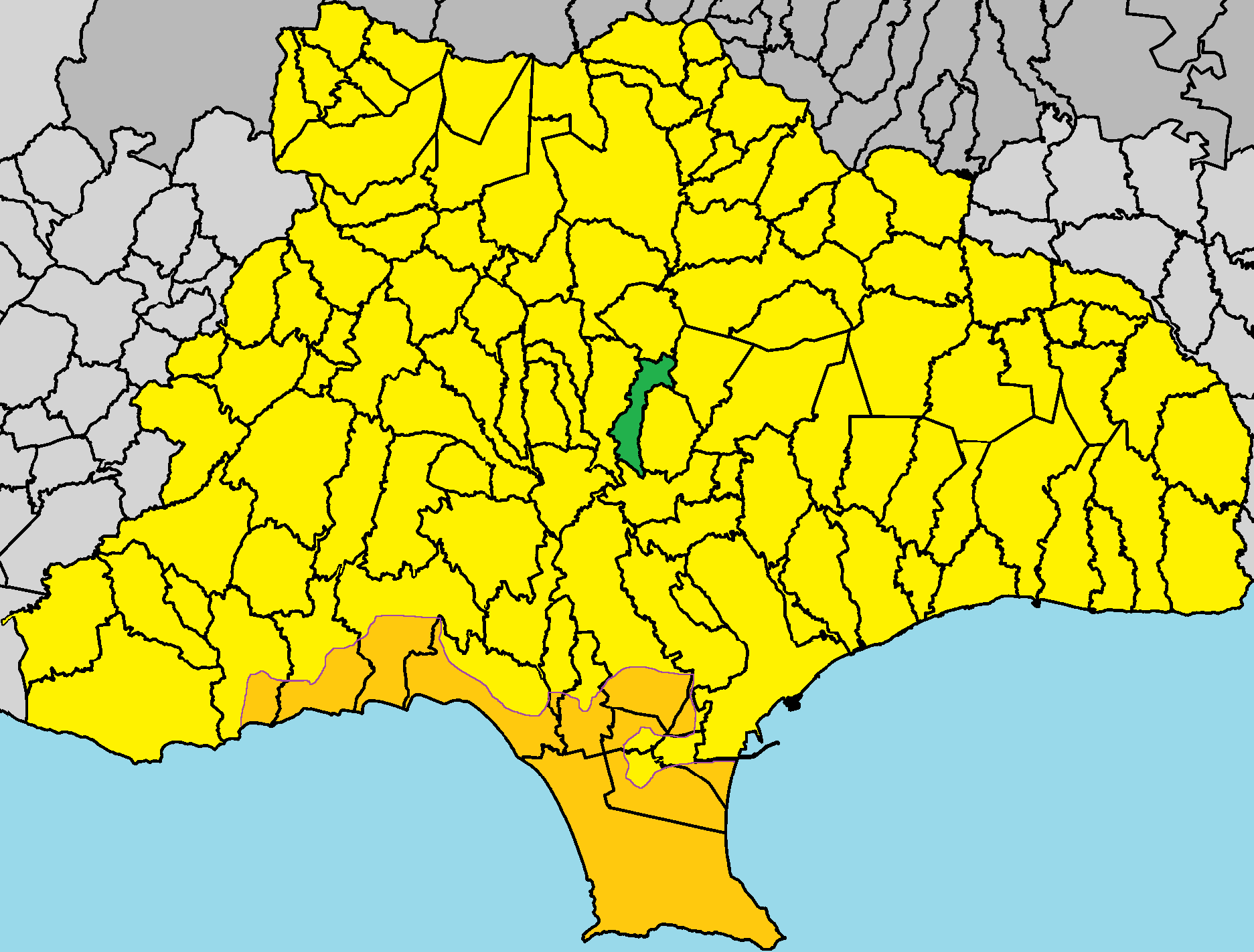 Korfi in Limassol District.